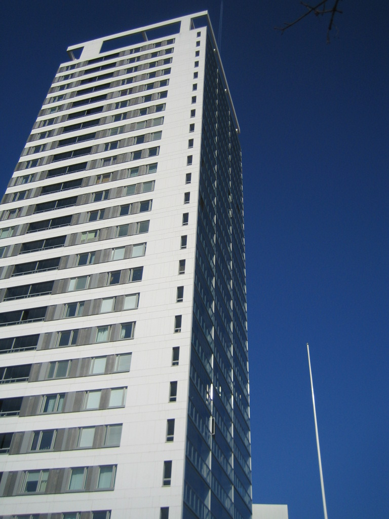 Cirrus from up close